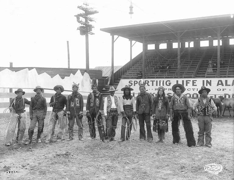 Cowboys and Indians posed in the corral behind the Gold Camps of Alaska exhibit .PH Coll 727.689 Subjects (LCSH): Wild West Show (Seattle, Wash.); entertainers--Washington (State)--Seattle; Portraits, Group--Washington (State)--Seattle; Pay Streak (Seattle, Wash.); Alaska-Yukon-Pacific Exposition (1909 : Seattle, Wash.); Exhibitions--Washington (State)--Seattle; Gold Camps of Alaska (Seattle, Wash.)